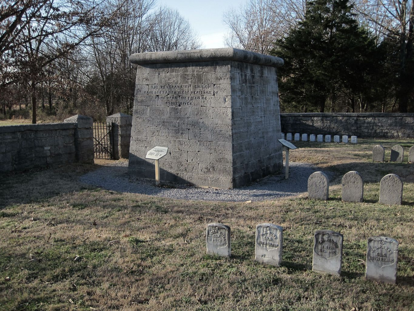 Stones River Memorial at Stones River National Battlefield, Murfreesboro, Tennessee.